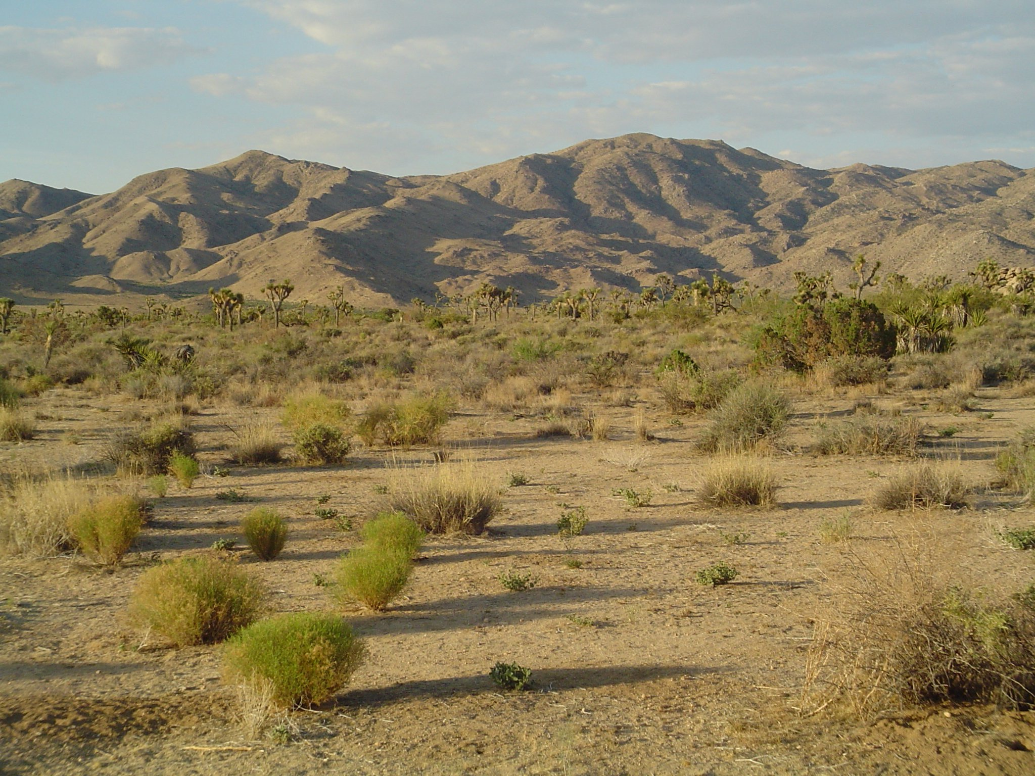 Quail Mountain seen from the shoulder of the main road that enters Joshua Tree National Park in California